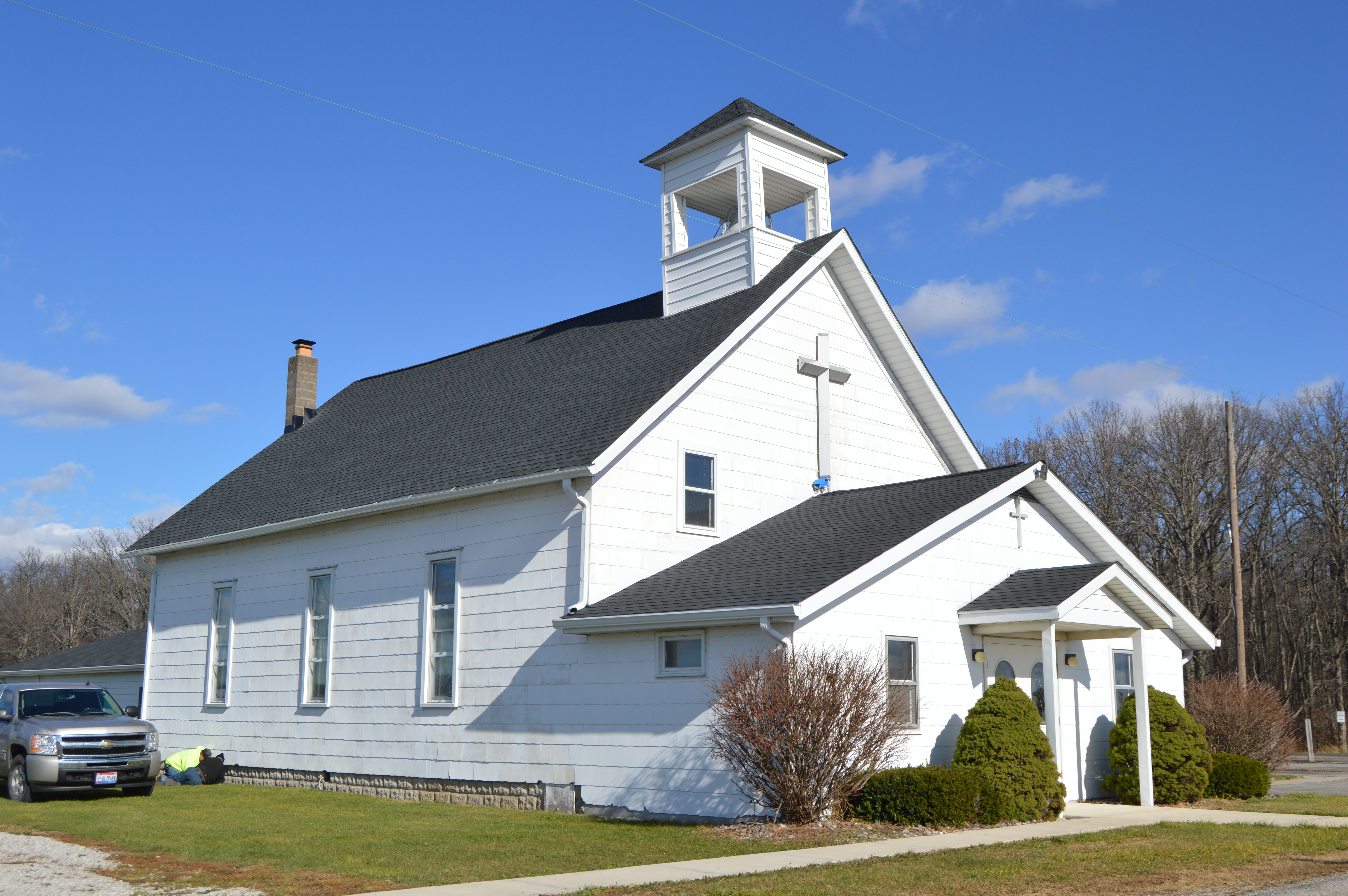 Western side and front of the Union Chapel Church of God, located on the northern side of Defiance-Williams County Line Road at its intersections with Road 18 and Flickinger Road in Pulaski Township, Williams County, Ohio, United States.